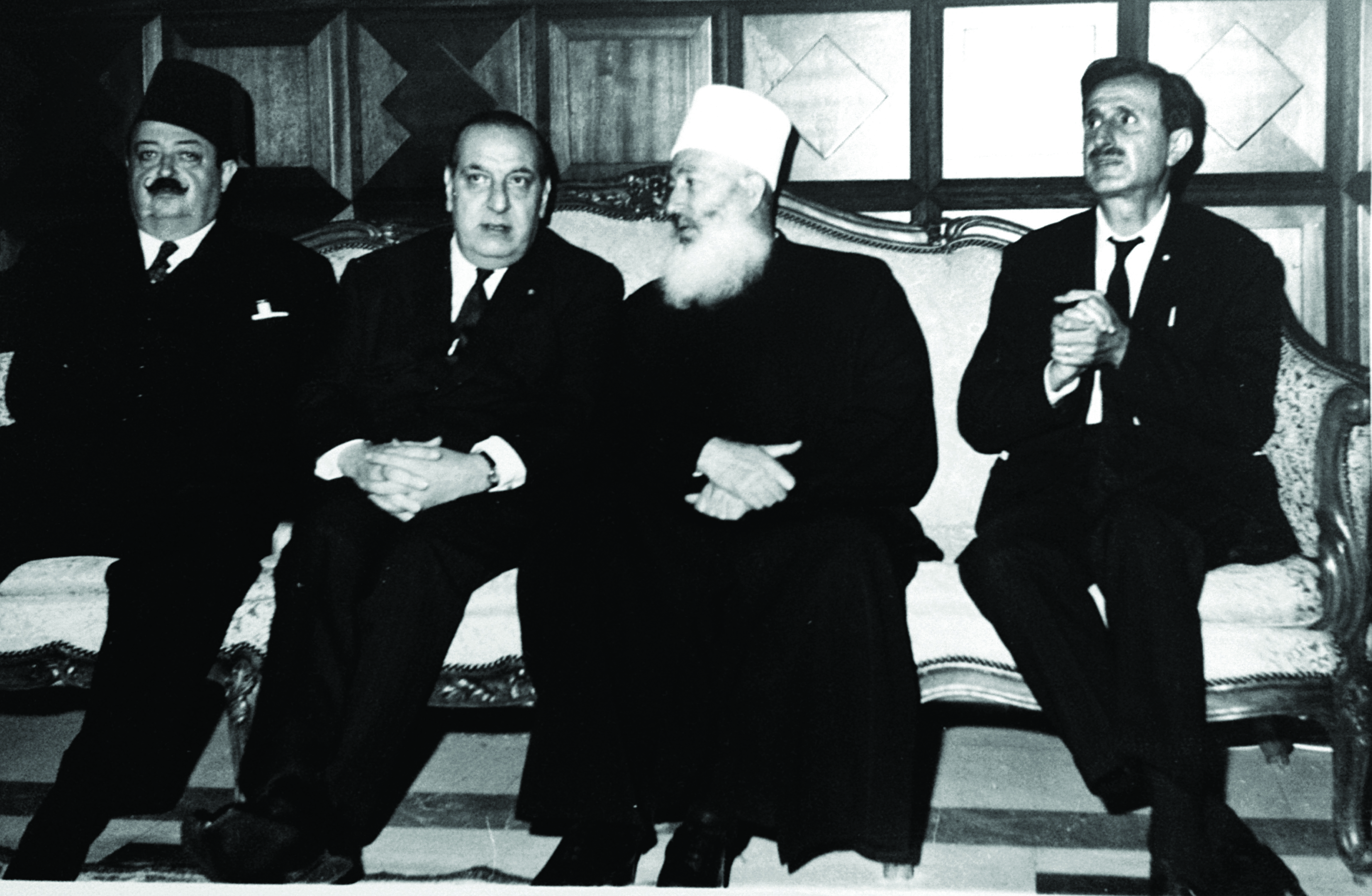 President Charles Helou's condolences to Sheikh Rashid Hamada on April 17, 1970 - with Kamal Jumblatt, Majid Arslan and Mohammed Abu Shakra